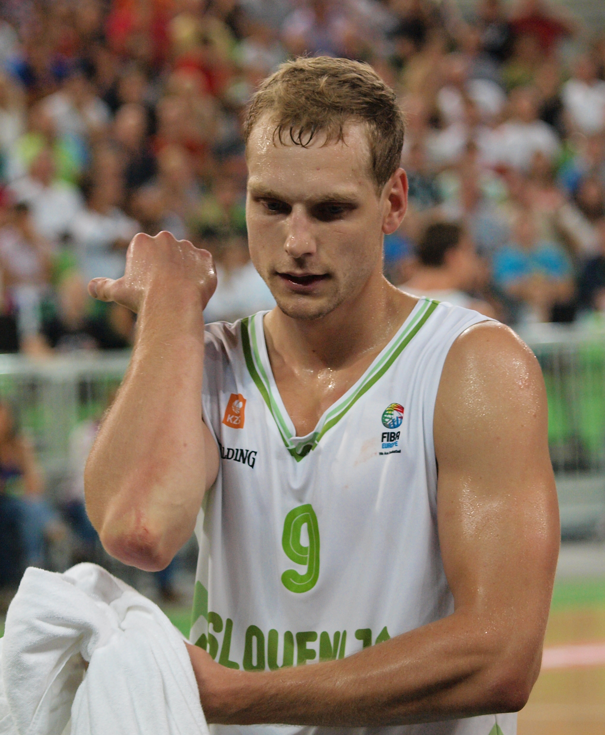 Jaka Blažič playing for Slovenia on friendly match vs Serbia. August 2015 in Ljubljana.